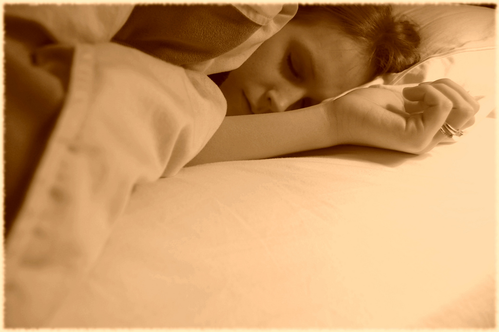 Young woman sleeping (Sleeping_the_day_away). Costa Nova, Aveiro, Portugal